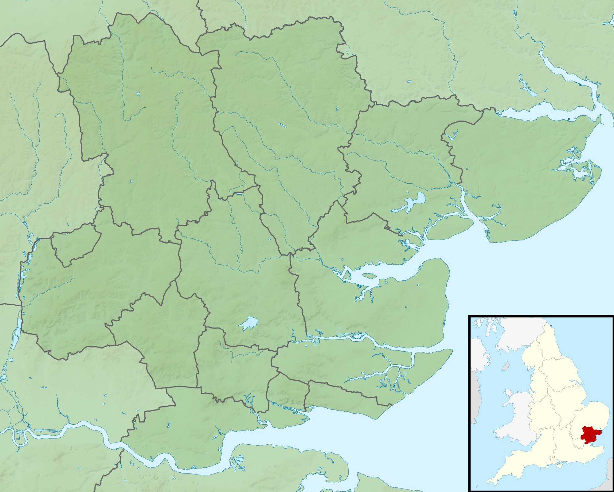 Relief map of Essex, UK. Equirectangular map projection on WGS 84 datum, with N/S stretched 160% Geographic limits: West: 0.06W East: 1.32E North: 52.11N South: 51.42N